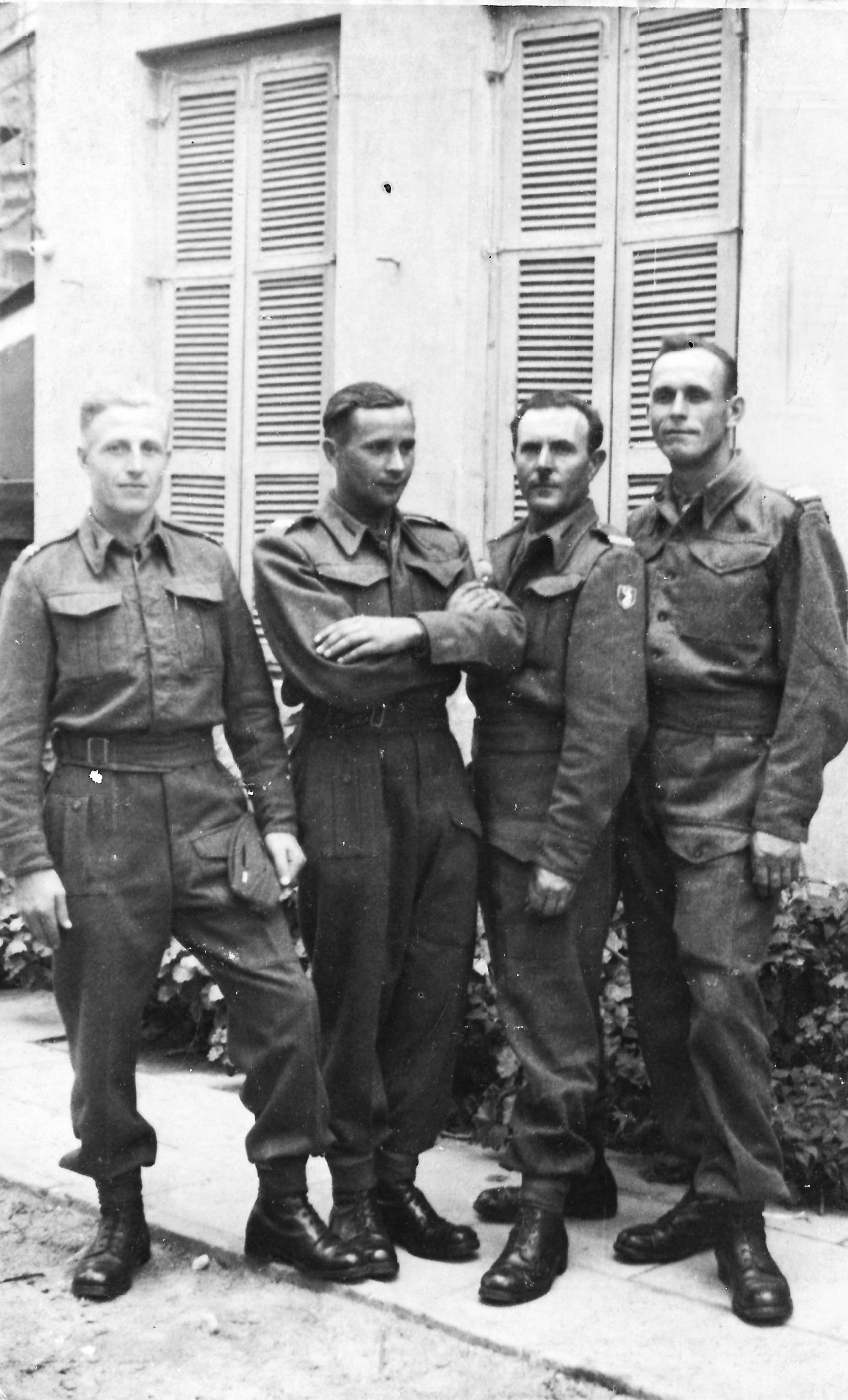 Source: Patrick Grydziuszko